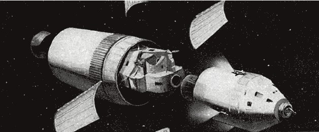 Panels separation by explosive charges